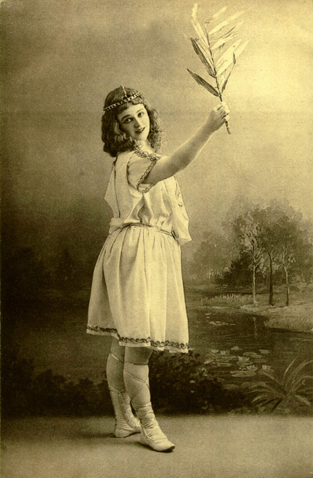 Russian opera singer Klavdia Tugarinova (b. 1877)